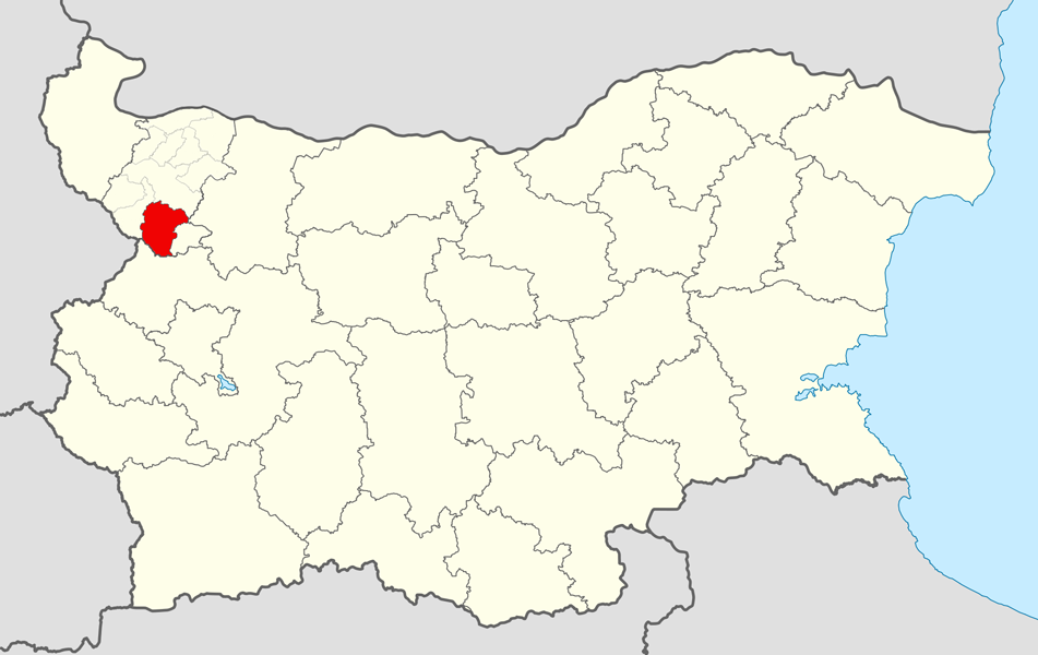 Location map of Berkovitsa Municipality within Bulgaria and Montana Province. Equirectangular projection, N/S stretching 130 %. Geographic limits of the map: N: 44.4° N S: 41.1° N W: 22.1° E E: 28.9° E